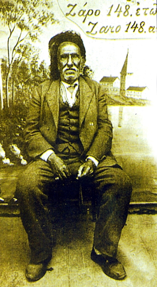 Zaro Agha 148-year-old